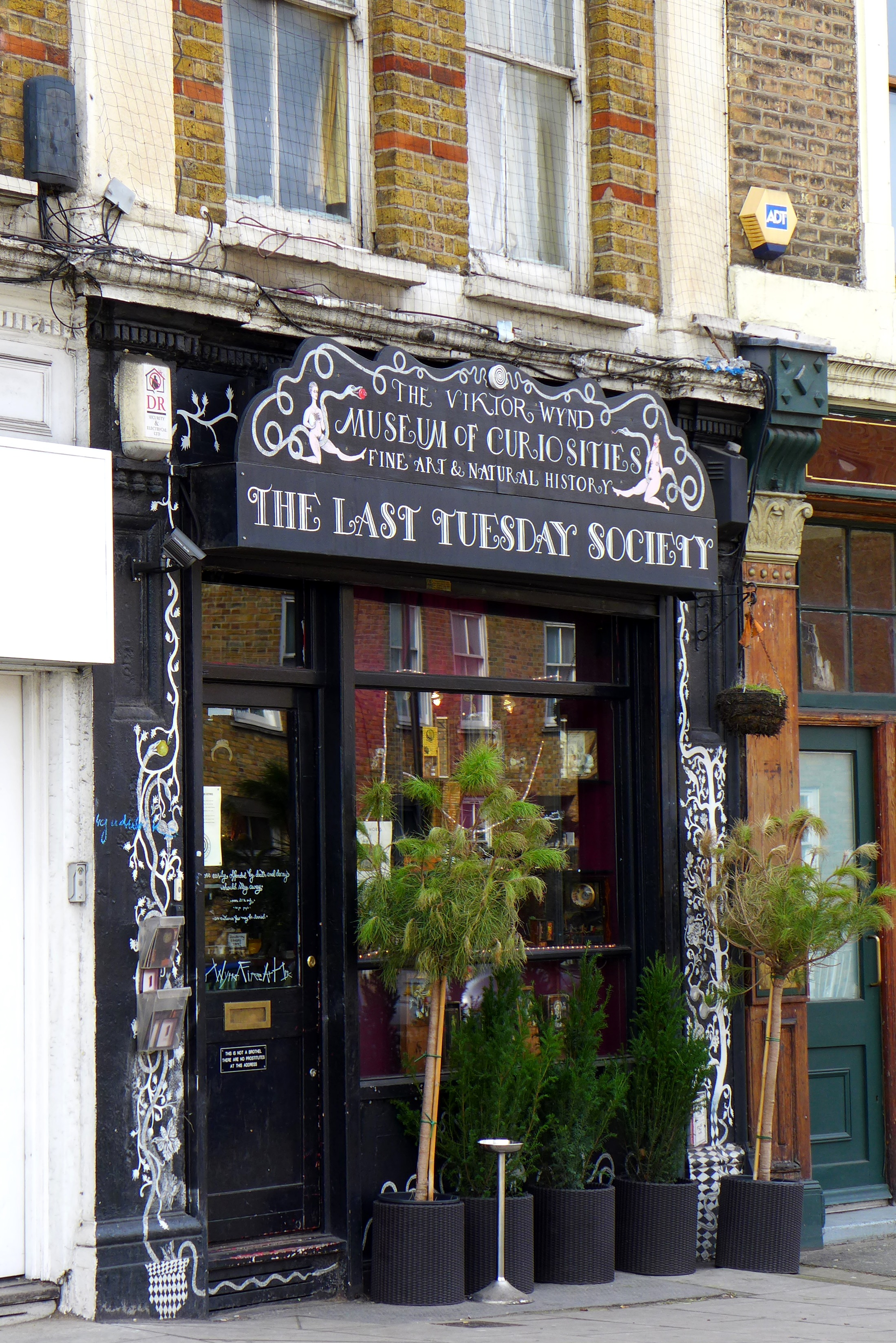 A museum but it has a cafe and cocktail bar. Address: 11 Mare Street. Owner: The Last Tuesday Society (website). Links: London Pubology